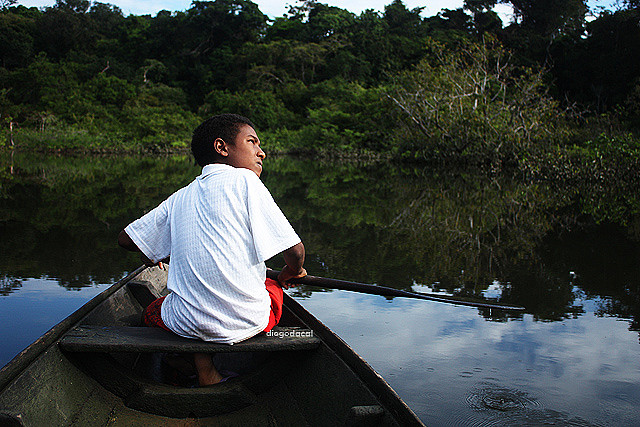 A young guide in the Amazon